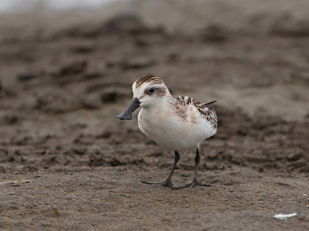 Spoon-billed Sandpiper Eurynorhynchus pygmeus, Ishikari, Hokkaido